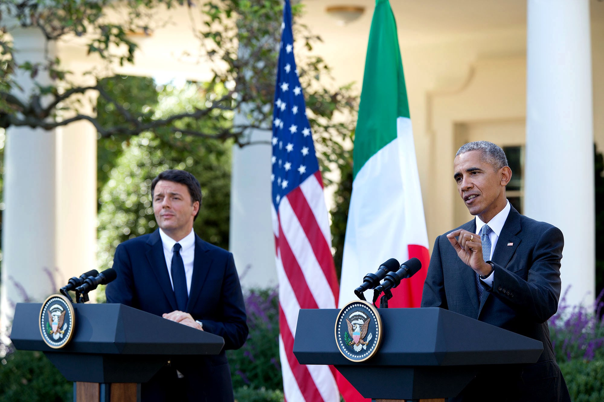 Matteo Renzi and Barack Obama in October 2016.